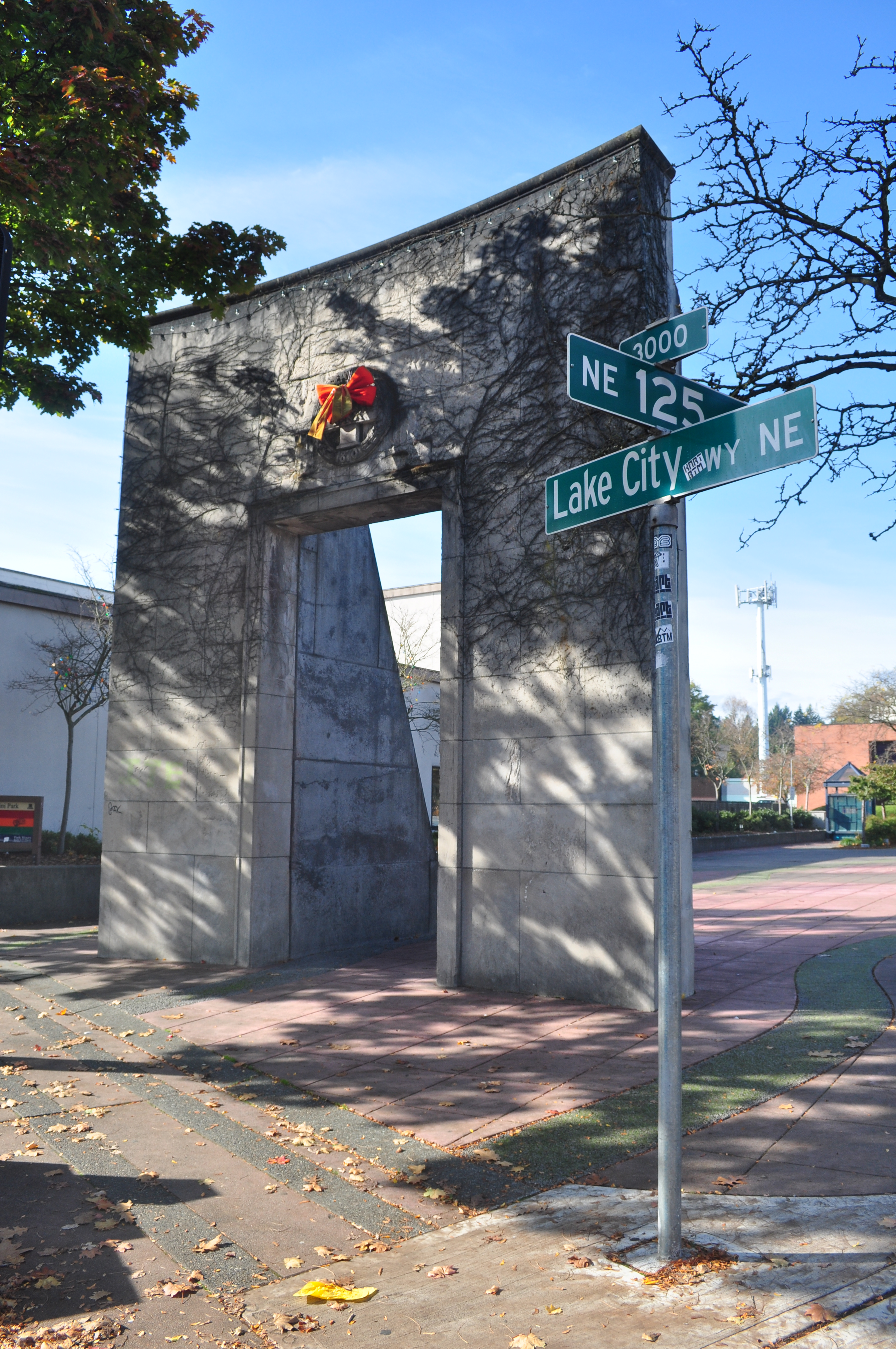 The entrance to the former SeaFirst Bank in Lake City, Seattle, Washington is preserved in a small park (Lake City Mini Park) at 125th Street and Lake City Way.